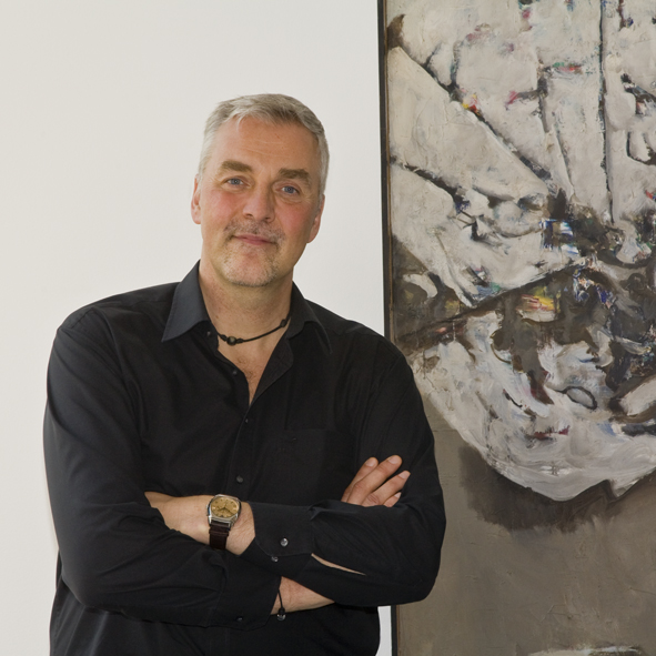 Prof. Dieter Georg Herbst